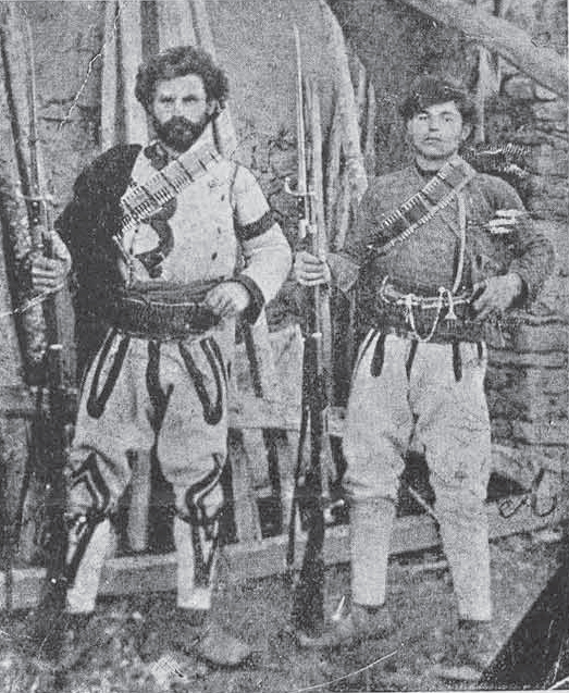 Portrait of bulgarian revolutionaries Kolich and Letse Ivanovski